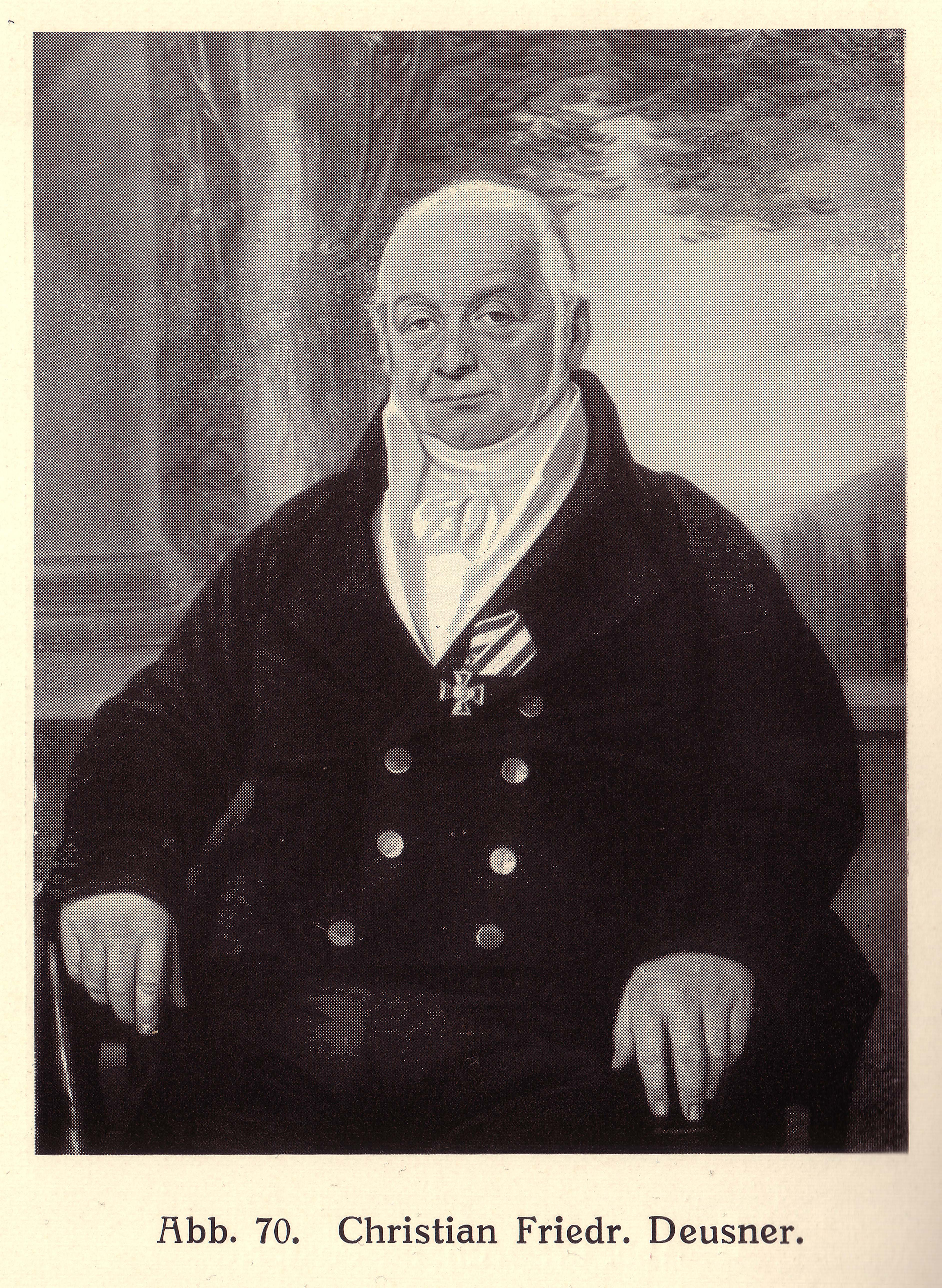 cloth manufacturer, councilman and chairman Gentlemen's Club: Christian Friedrich Deusner (1756 - 1844)